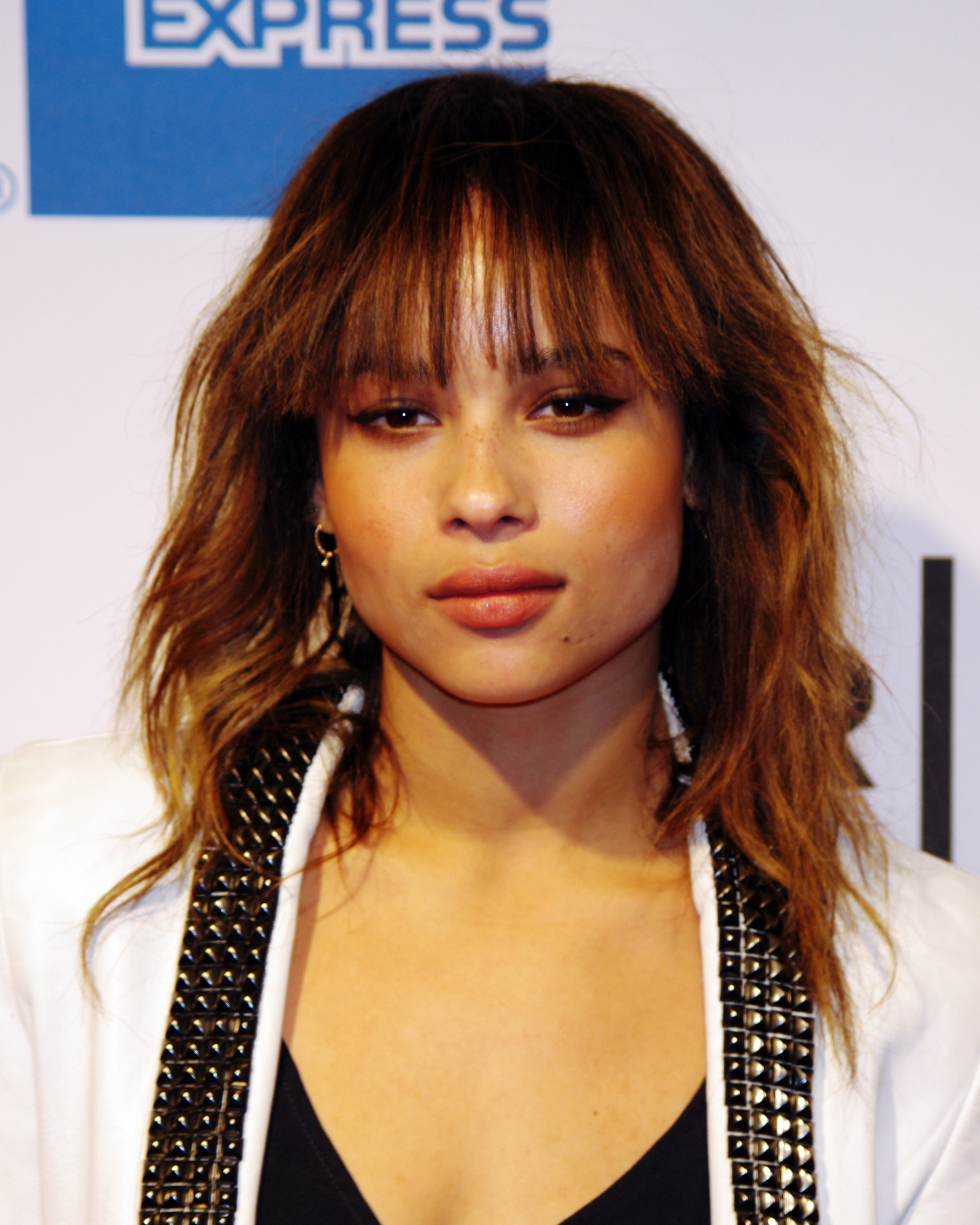 Zoë Kravitz attending the premiere of The Union at the Tribeca Film Festival.